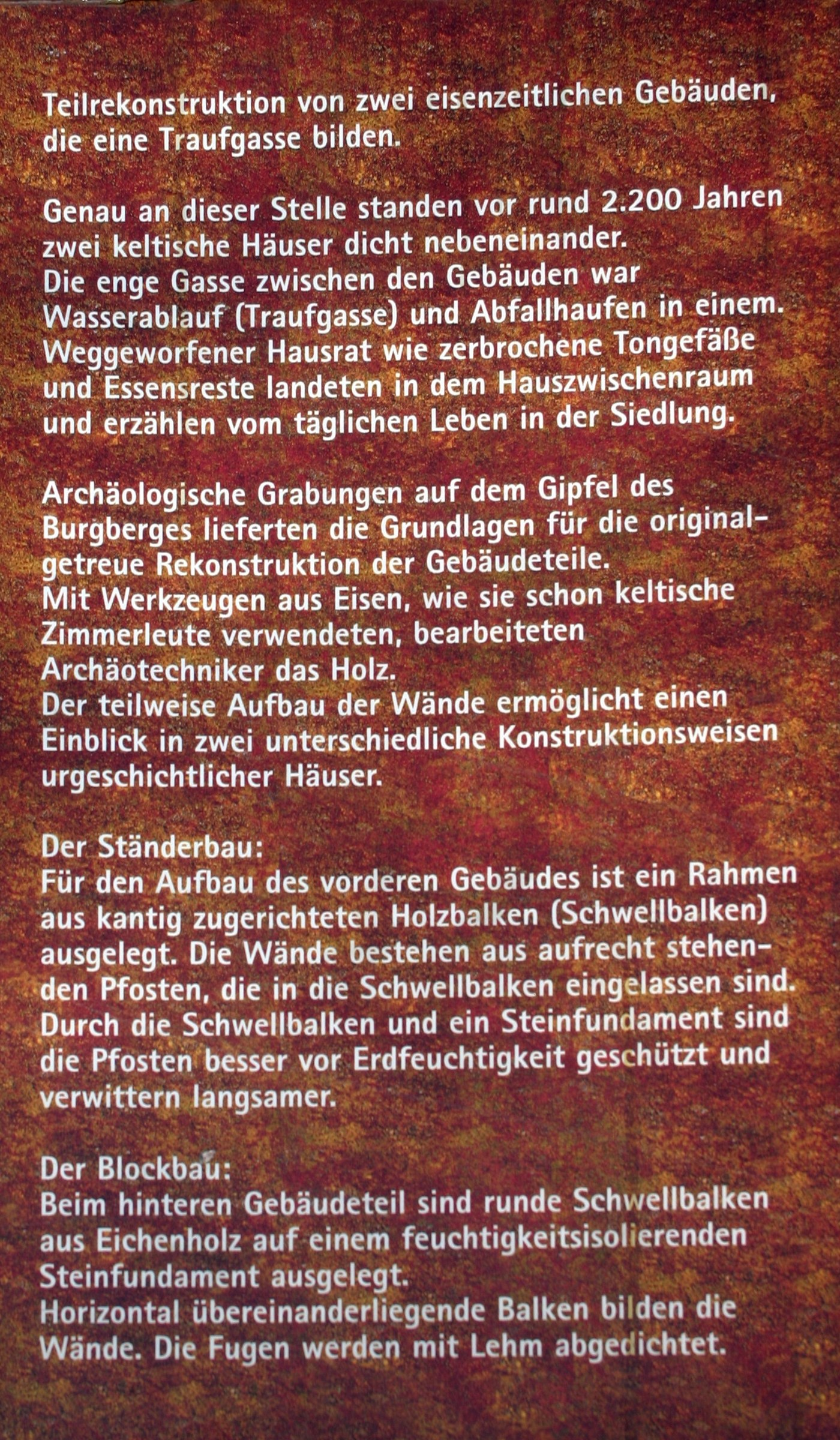 Schwarzenbach, Lower Austria (Austria), .